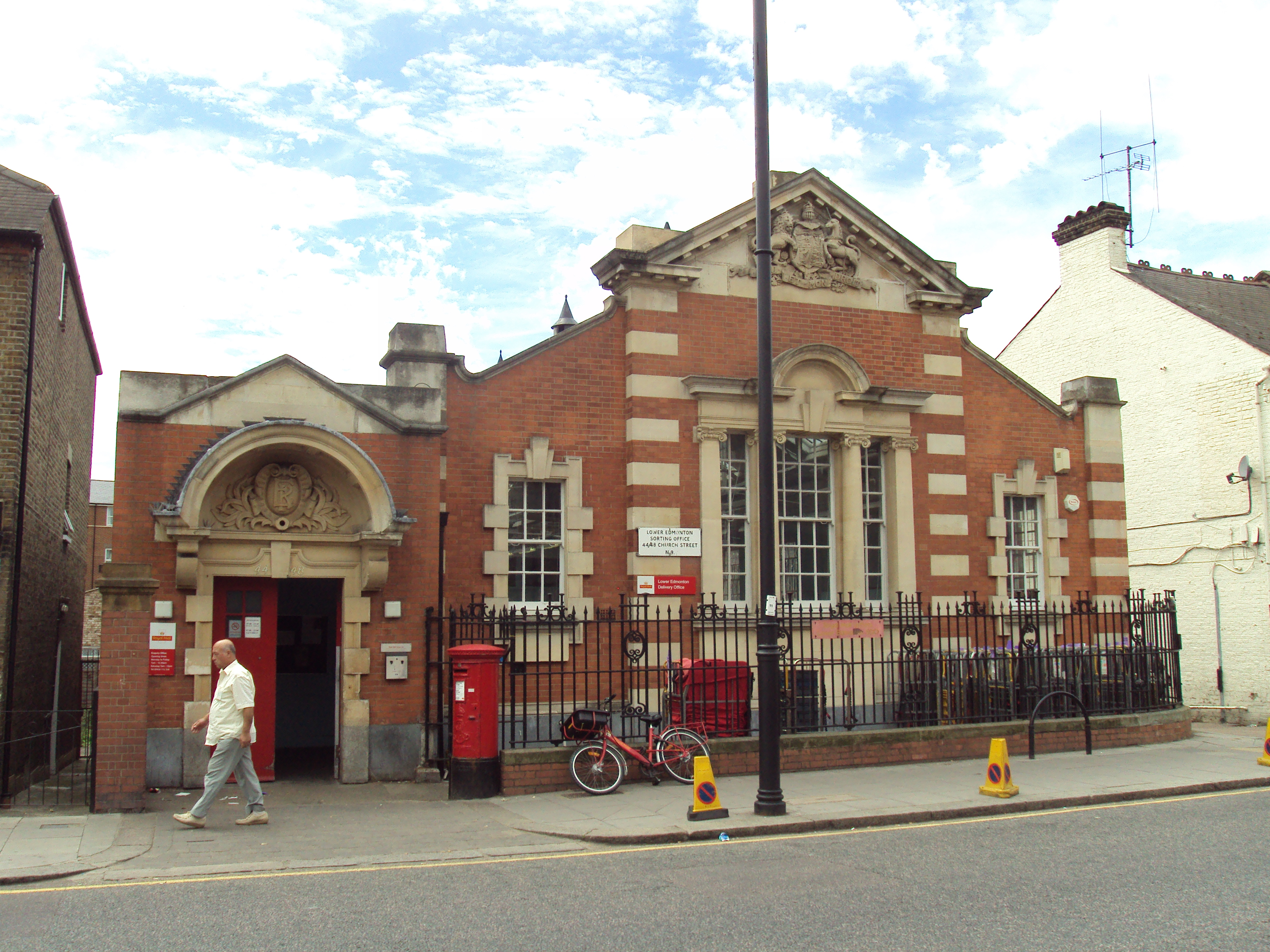 Lower Edmonton Sorting Office, Church Street, Edmonton, London.